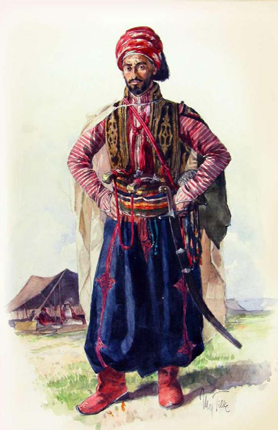 Yazidi man in traditional clothes